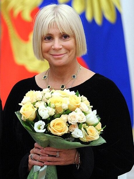 Faina Zakharova at award's ceremony. Moscow, Kremlin. 29 Oct 2013.